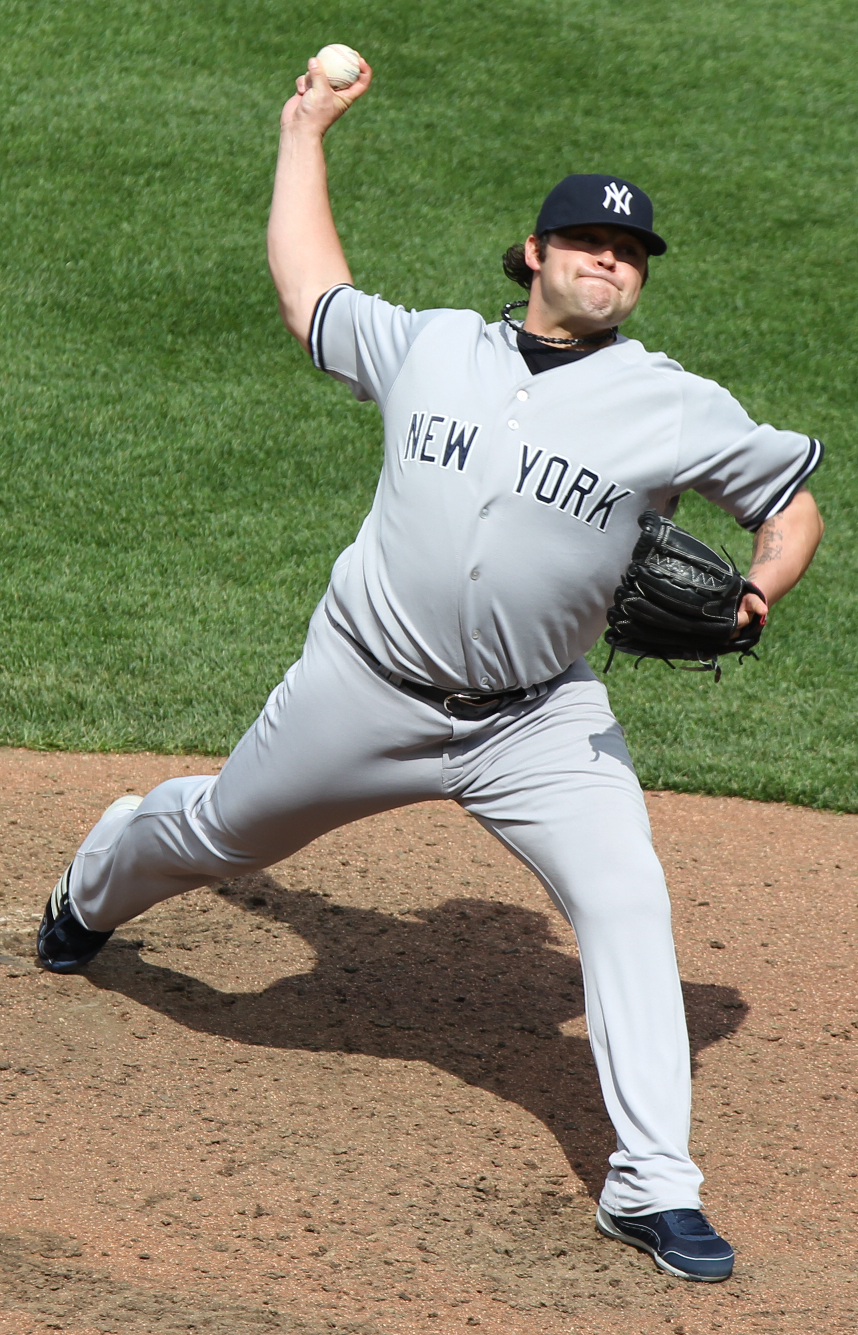 Joba Chamberlain pitching during a game between the New York Yankees and Baltimore Orioles on April 24, 2011.